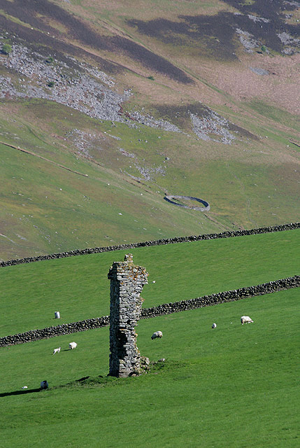 The remains of a tower near Wrae Farm